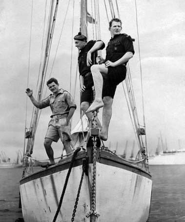 Zjawa III in Southampton, Władysław Wagner - first Polish saylor to circumnavigate the Earth - at left.